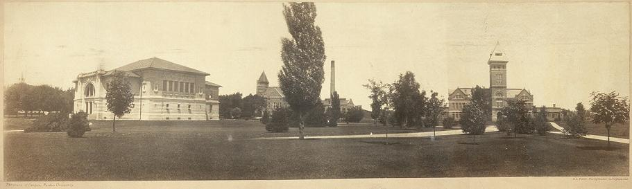 Purdue University, 1904. Visible, from left to right, are: Eliza Fowler Hall auditorium (built in 1903, demolished in 1950s for the construction of Stewart Center), first Electrical Engineering Building (built in 1889, now the site of Wetherill Chemistry Laboratory), second power plant (now demolished), and Heavilon Hall II mechanical engineering building (built in 1896, demolished in 1956 when Heavilon Hall III was built).